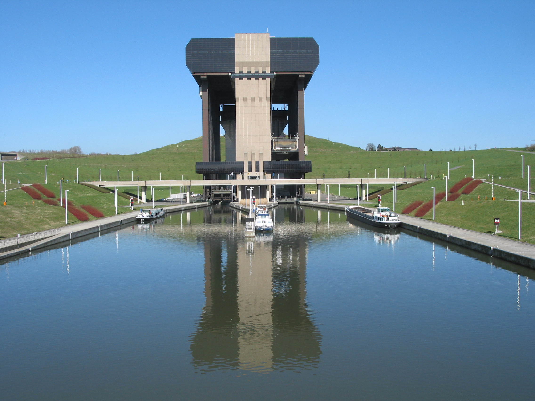 Strépy-Bracquegnies (Belgium), the bigest ship elevator in Europe.